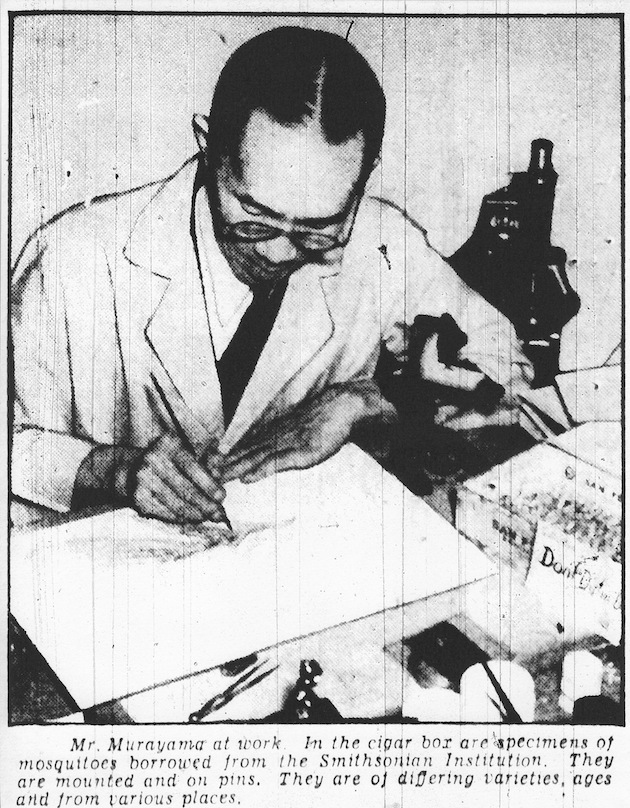 Picture of scientific illustrator and artist Hashime Murayama, published in the Washington Star, February 26, 1939, p.C10 (photo), synopsis: The eldest son of a samurai family who forsook the warrior inclinations of his distinguished forebears. Came to US with Count Aoki, Japanese Ambassador. At Ward’s Island worked under Dr. Adolph Meyer. At Cornell he made, stained and mounted slides for histology and embryology. His patent was for a method of preserving spinal nerve anatomy. In summer he studied art at Metropolitan Museum, sketching at the NY Aquarium. Selected to arrange the Japanese Armor Hall at Metropolitan. Illustrating a fish study for the Miami Beach Aquarium brought him to the attention of Dr. John Oliver Gorce, vice-president of the National Geographic Society, who suggested his appointment. He married the daughter of his Kyoto art professor. Ken is a news cameraman. Copyright not renewed.